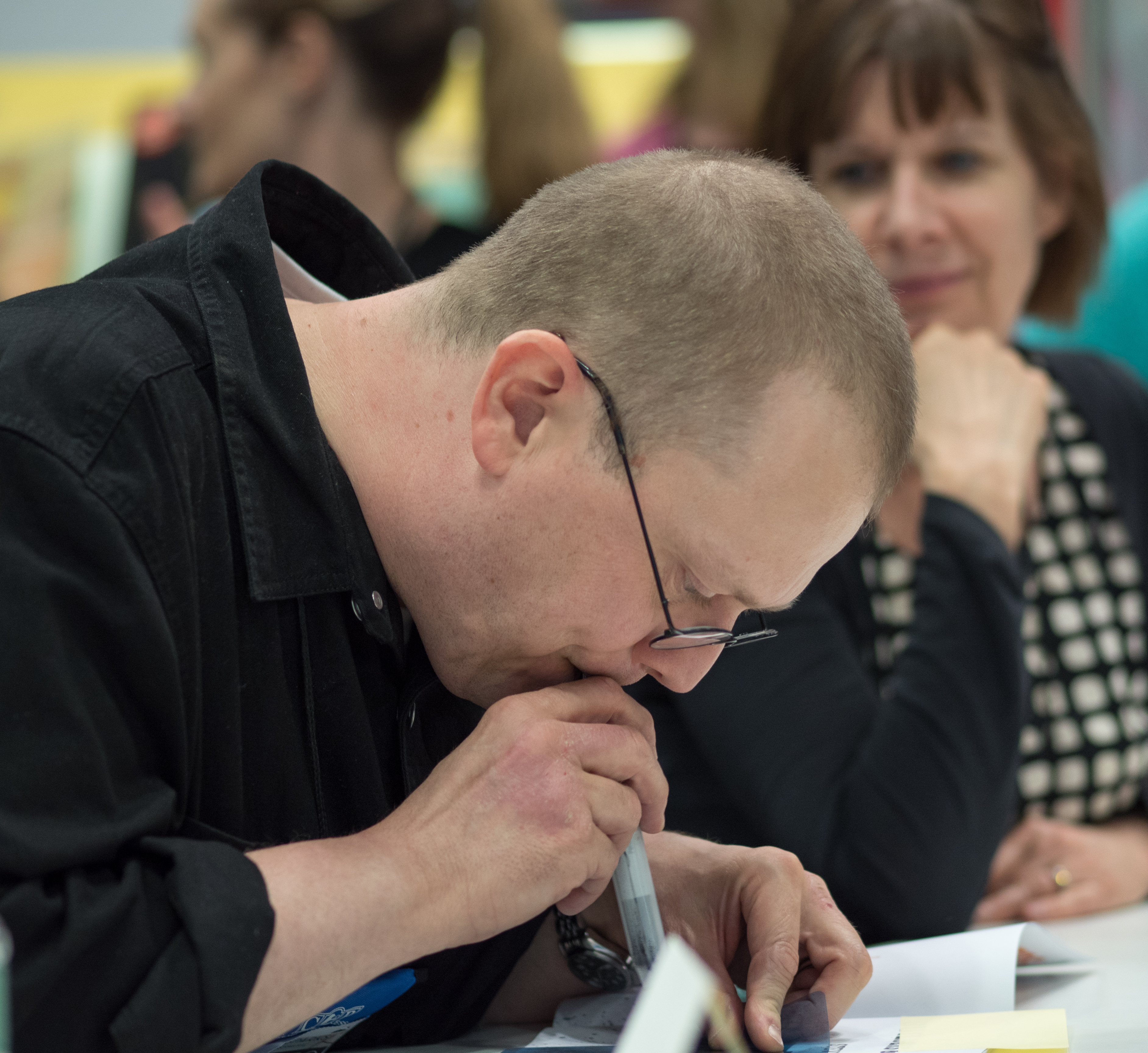 Steve Light BookExpo America 2018 at the Javits Convention Center in New York City.